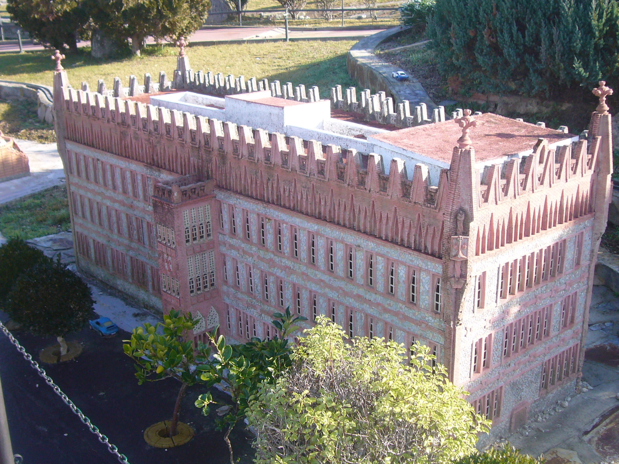 Scale model at the "Catalunya en Miniatura" miniature park : Teresianes school, Barcelona